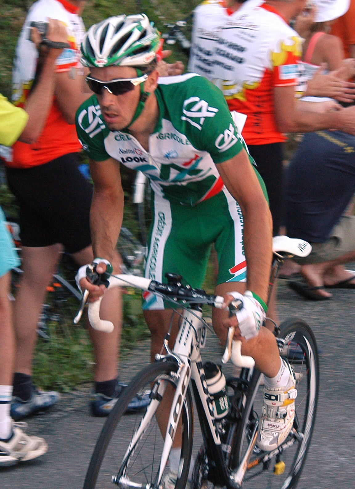 Christophe Le Mével at stage 7 of the Tour de France 2007 on the Col de la Colombière.